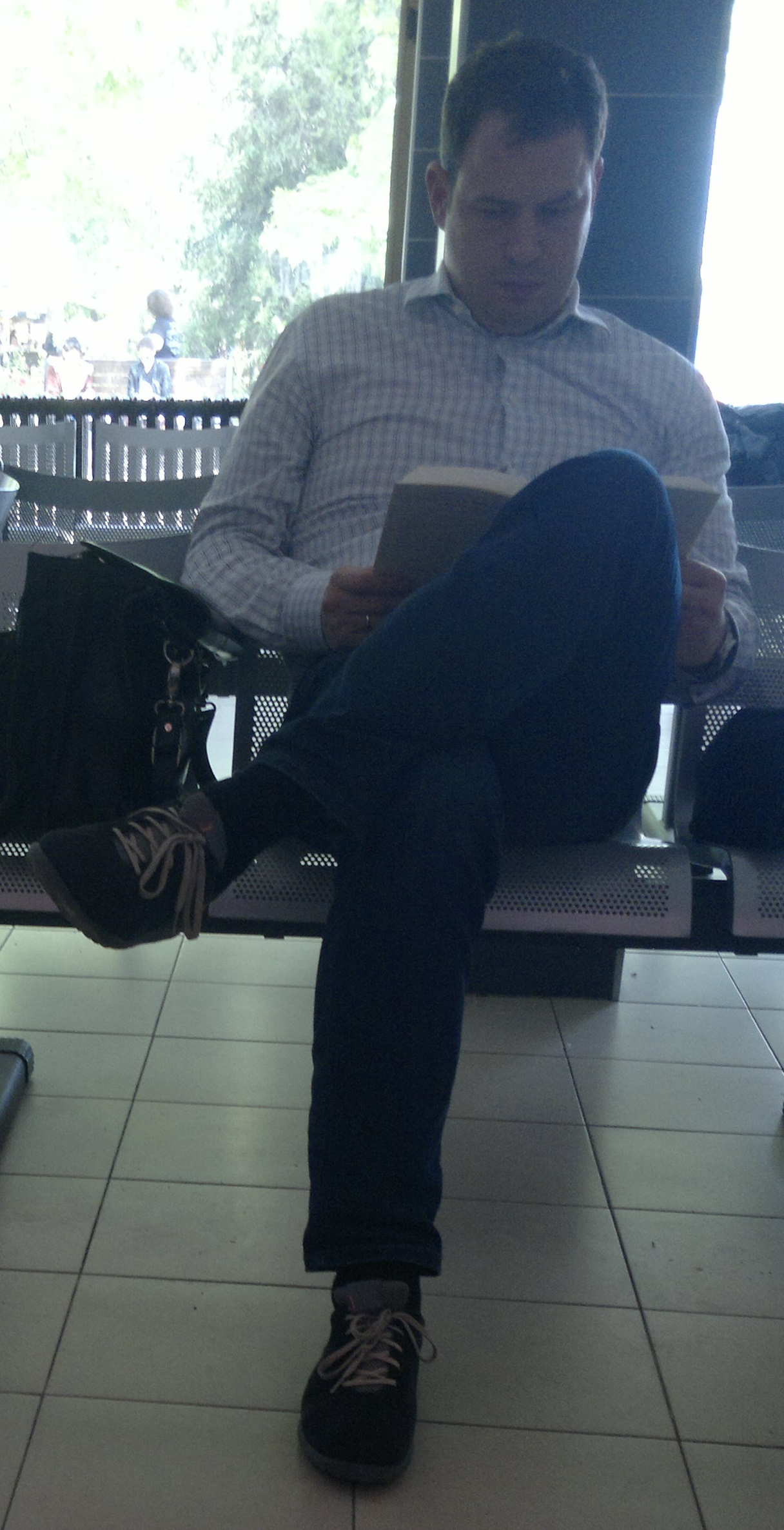 Professor Ivan Jordović reading at Novi Sad Main Bus Station